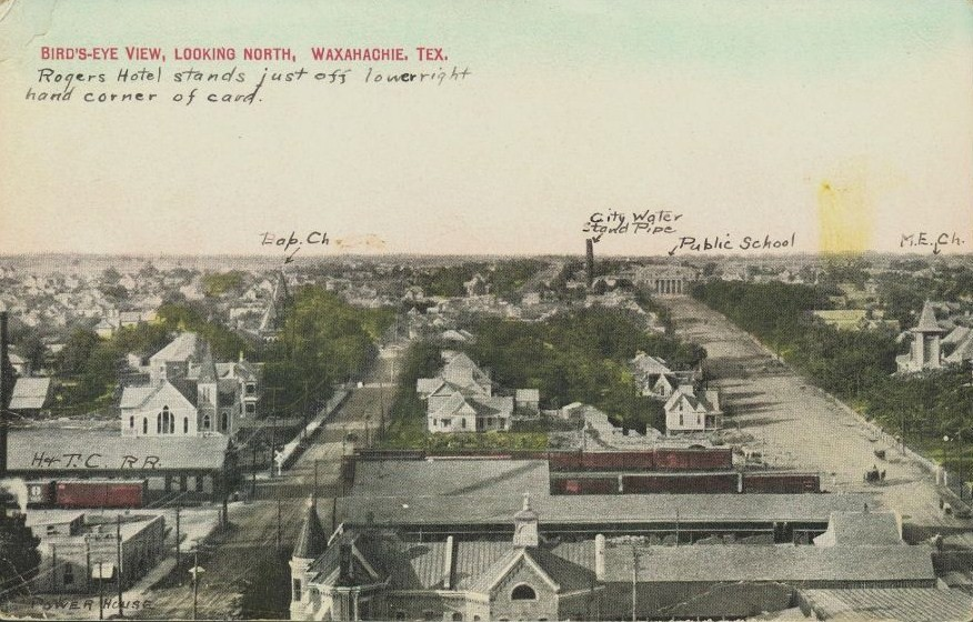 Aerial view of Waxahachie, Texas, looking north, with various landmarks labeled; postcard was published about 1908, according to store Web page